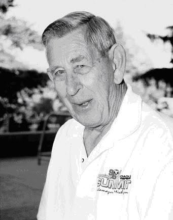 Portrait of Ken Aston MBE